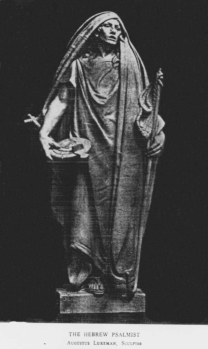 Taken from the Museum of the Brooklyn Institute of Arts and Sciences, The Statues and Their Meanings, Museum News, vol. 6, no. 3, December 1910, whose date is pre-1923, making it copyright free